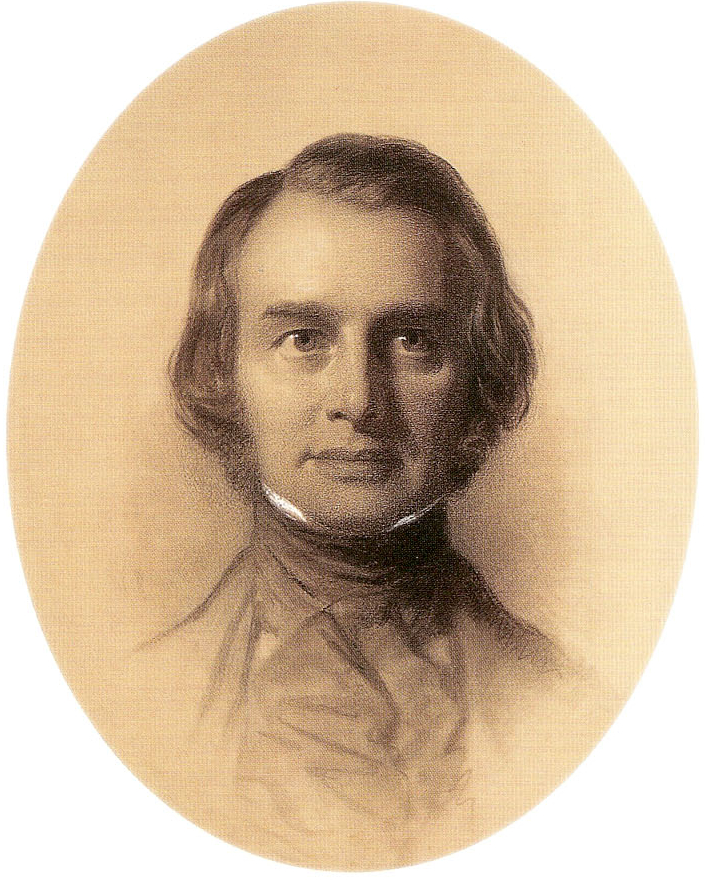 Eastman Johnson - Henry Wadsworth Longfellow - Crayon and Chalk on Paper 21 x 19 in. oval - 1846 - Scanned from Eastman Johnson: Painting America - figs 3 4 5 pg14